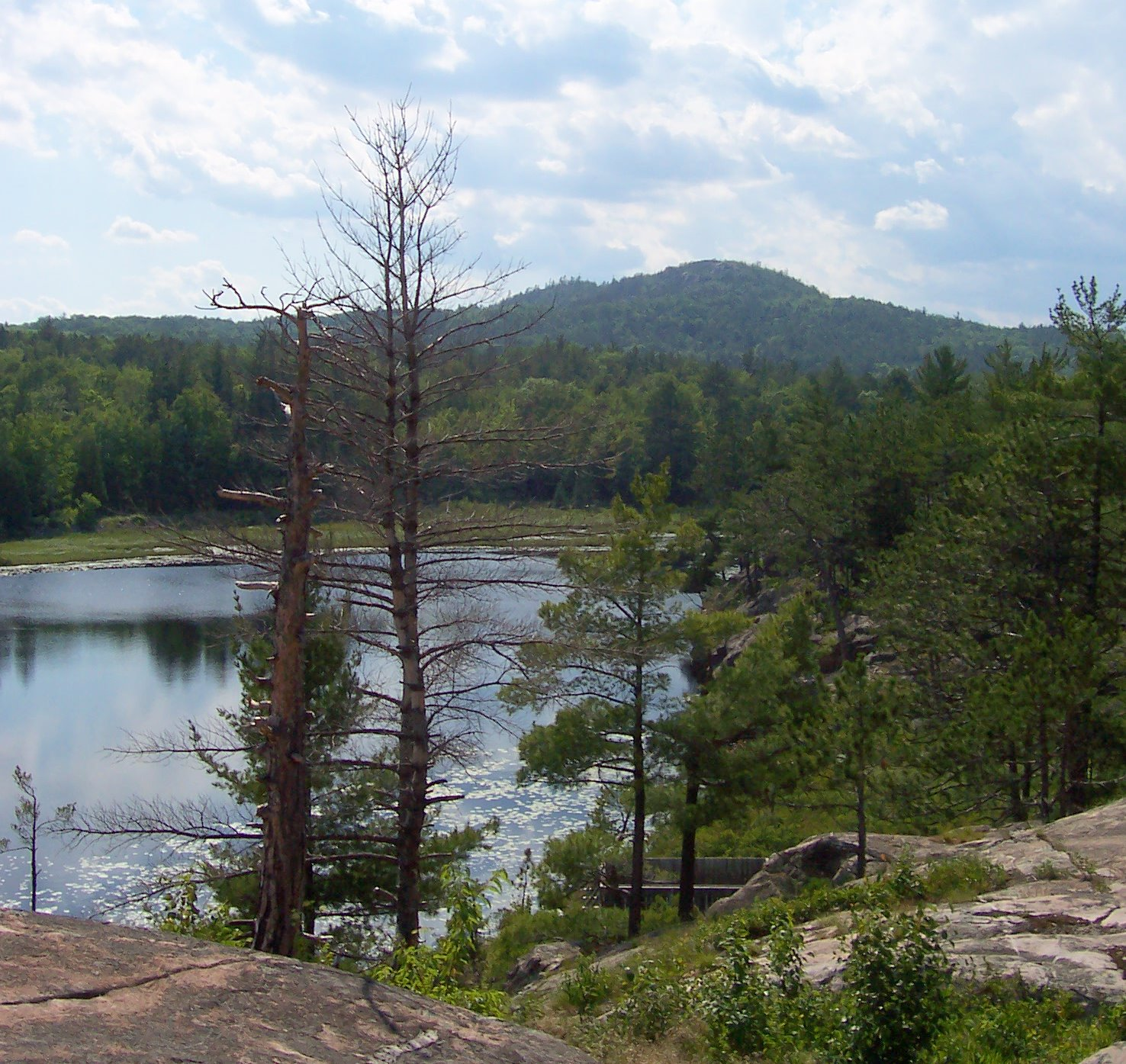 Hogback Mountain from Wetmore Landing, in the Huron Mountains